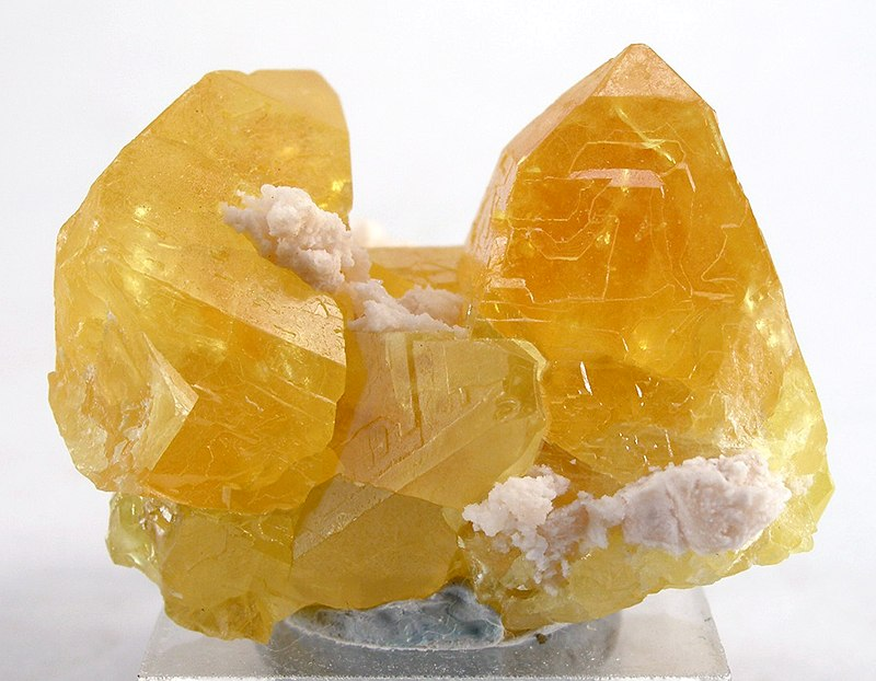 Aragonite, Sulphur Locality: Cianciana, Agrigento Province, Sicily, Italy (Locality at ) Size: miniature, 4.5 x 3.2 x 2.8 cm Sulfur on Aragonite Stunning miniature! A good Sulfur inhabits most everyone�s list of "must-haves", but to find two such quality crystals together , isolated on matrix , is a minor miracle. Note the sharp form of these crystals, quite a bit less modified than one normally sees and more "textbook" in style. The larger crystal, pristine and 2.3 cm in height, is deep yellow, GEMMY and lustrous. The second crystal, equal in size, but just slightly lighter in color, is nearly as perfect save a very small side contact and one small unobtrusive ding. All in all, a remarkable pair of Sulfur crystals that is so finely displayed you can look at it from any angle pretty happily, 360 degrees. This sulphur specimen is much much rarer than the Cozidizzi Mine stuff....Not from that mine. This is from a much rarer mine during the "old days" of mining!